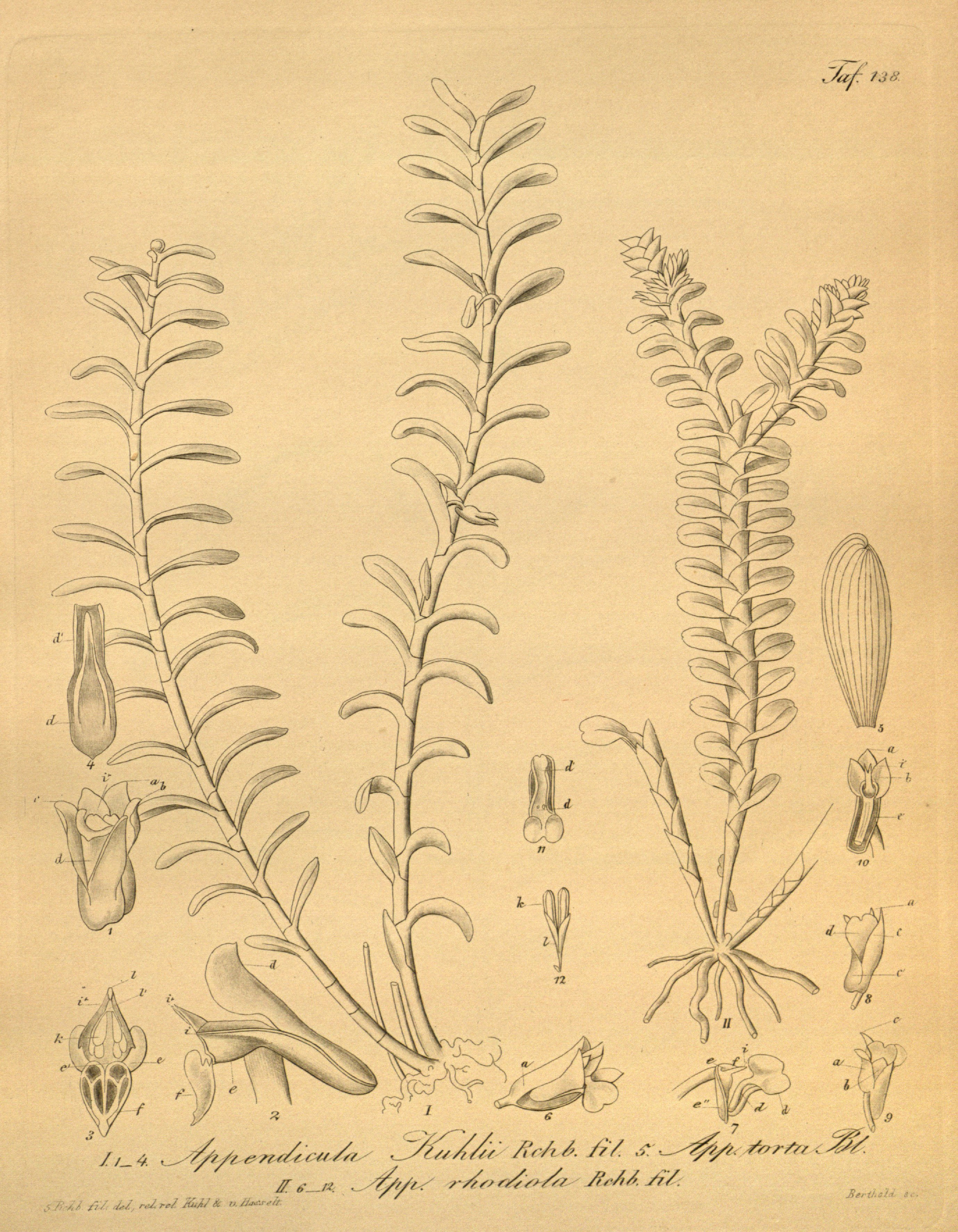 Illustrations of Appendicula carnosa (fig. I as syn. Appendicula kuhlii) andAppendicula torta (fig. II as syn. Appendicula rhodiola) andAppendicula torta (fig. III)